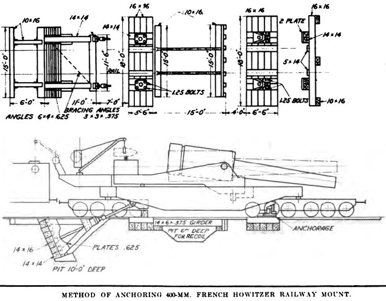 Diagram showing method of anchoring French 400 mm railway howitzer, World War I era. See also File:French 400 mm railway howitzer firing position diagram.jpeg